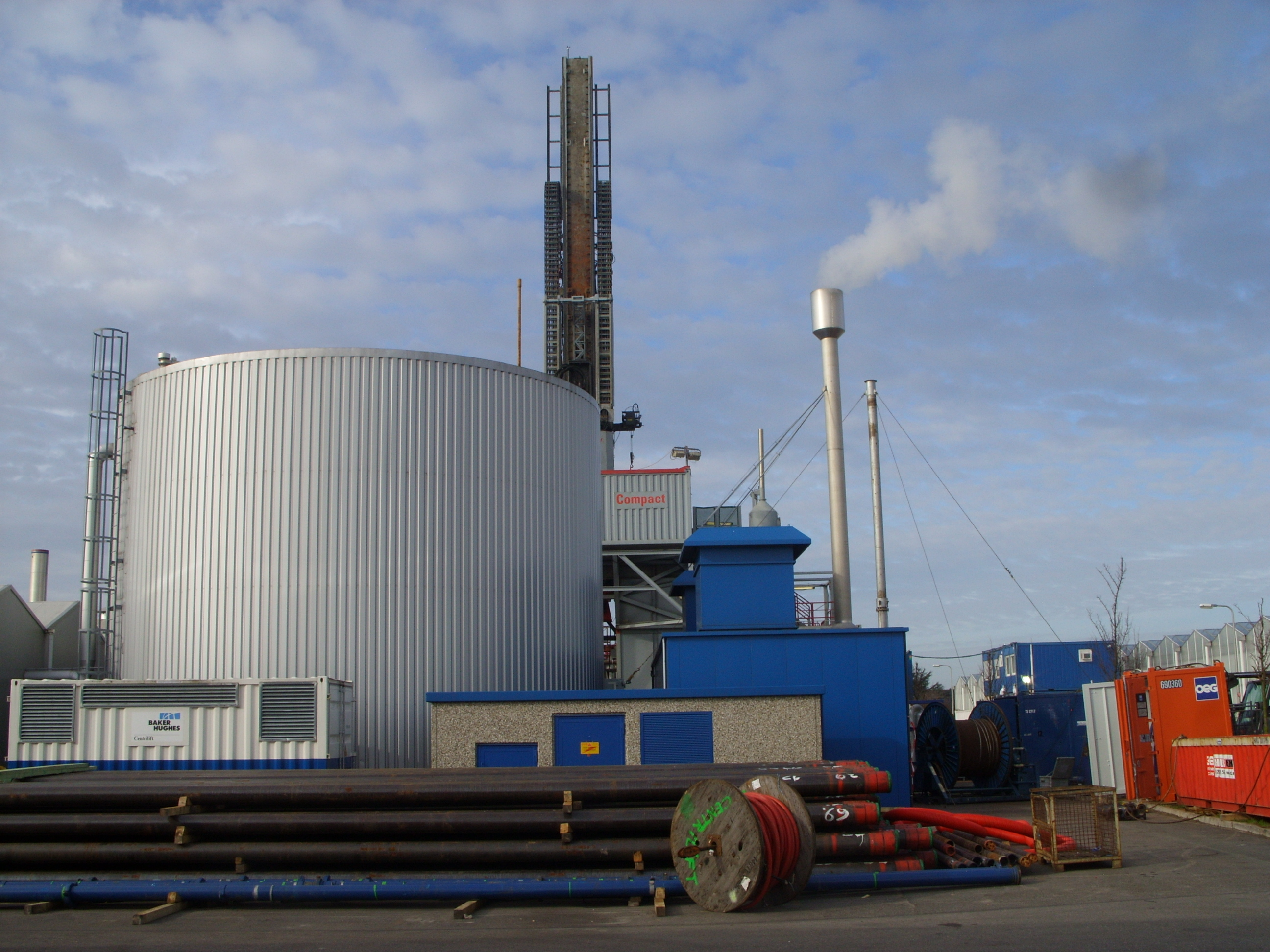 Geothermal driling rig, Honselersdijk, The Netherlands